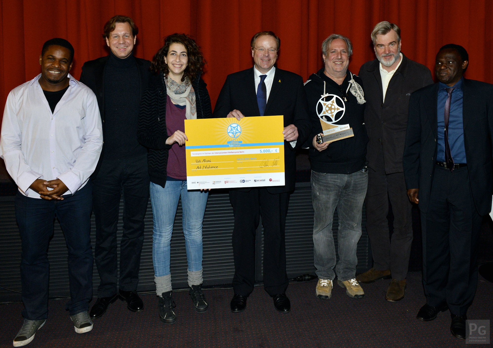 Udi Aloni (Director Israel), Dirk Niebel (German minister, BMZ) Award 'Cinema fairbindet' Berlinale 2013